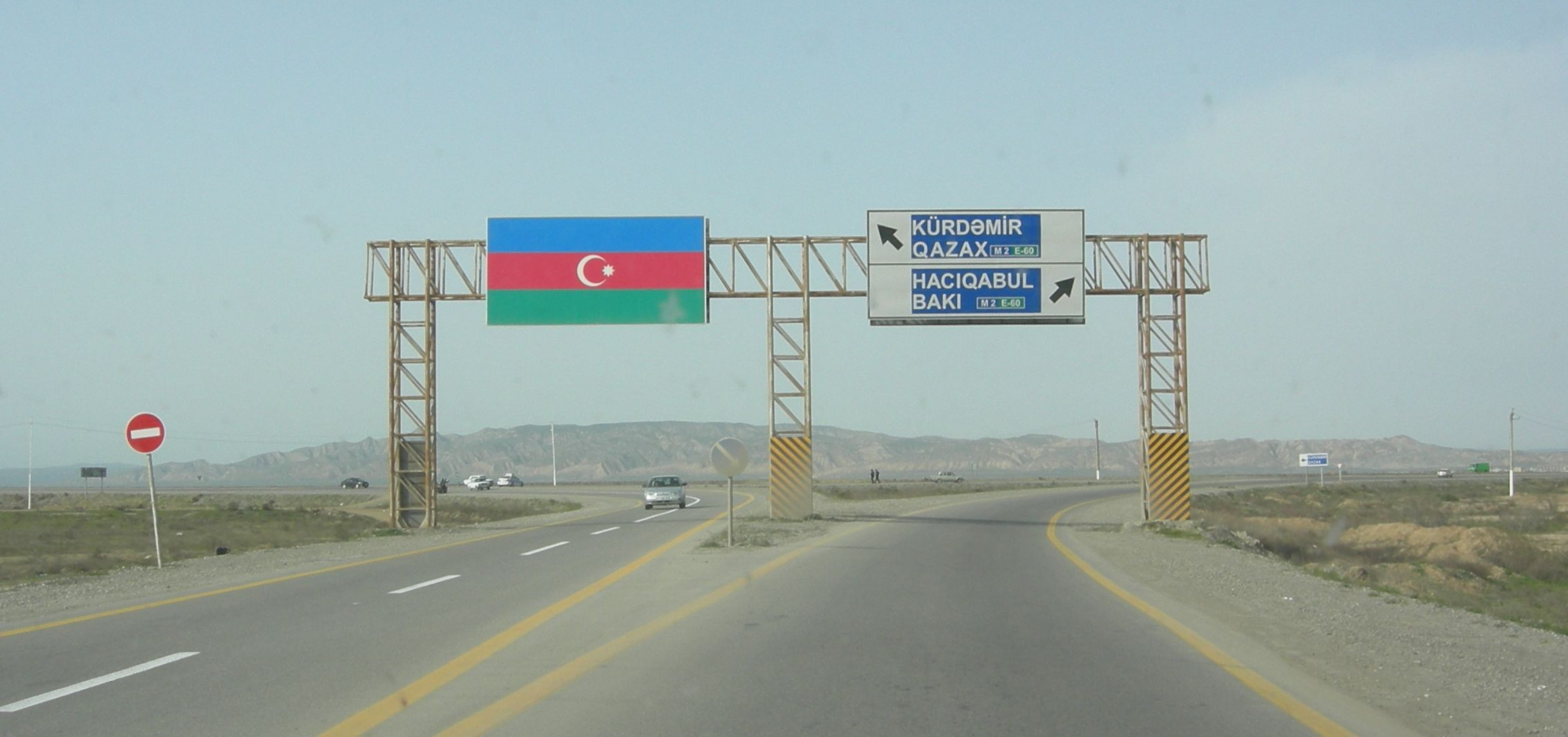 Junction of M6 highway (= E002 = AH81) from M2 highway (= E60 = AH5) near Hacıqabul (= Qazıməmməd), Azerbaijan